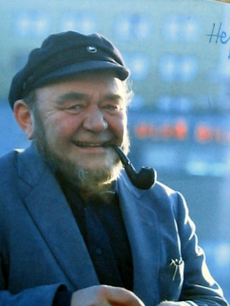 Jan Thurfjell